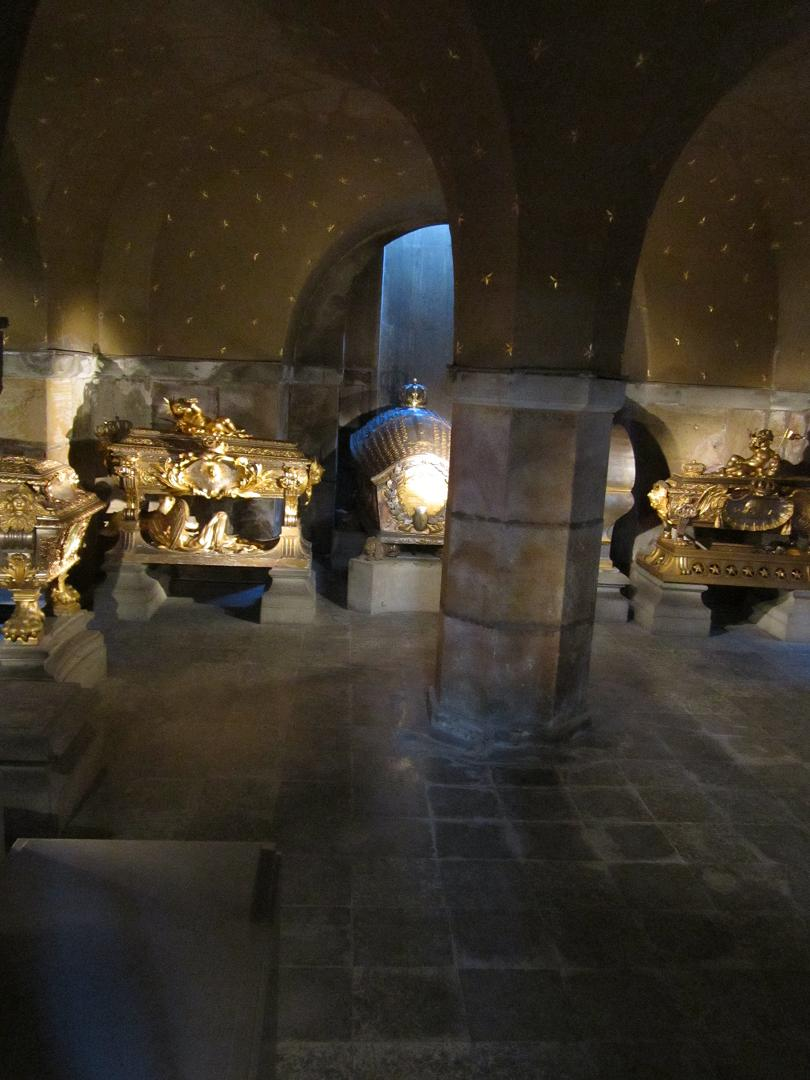 Caroline Crypt, family grave of King Carl X Gustav of Sweden at Riddarholm ChurchPlace: Stockholm, Sweden